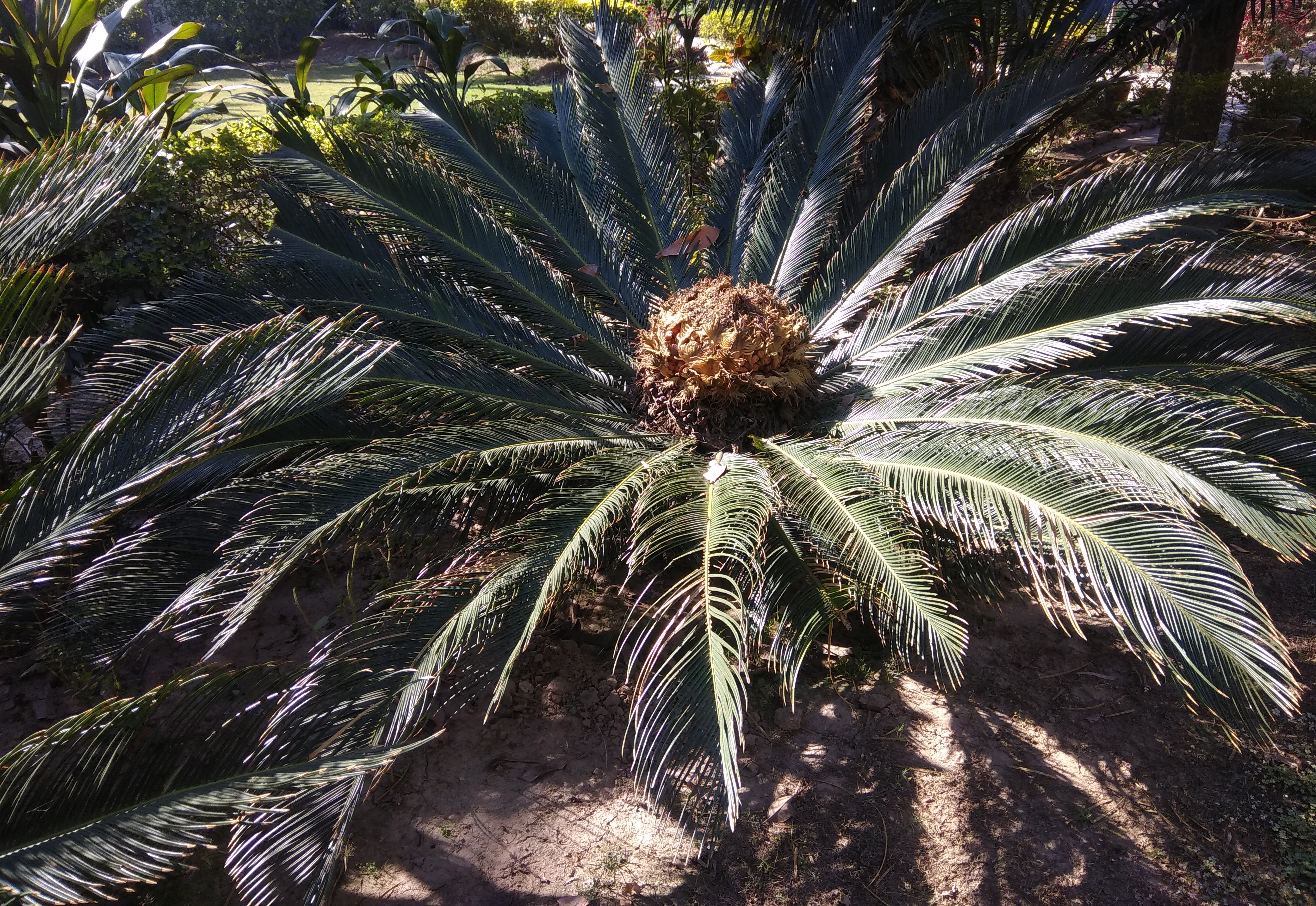 Sago palm in Mohali